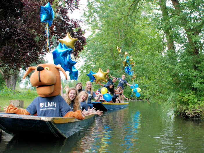 Members of LMH JCR in punts on an open day